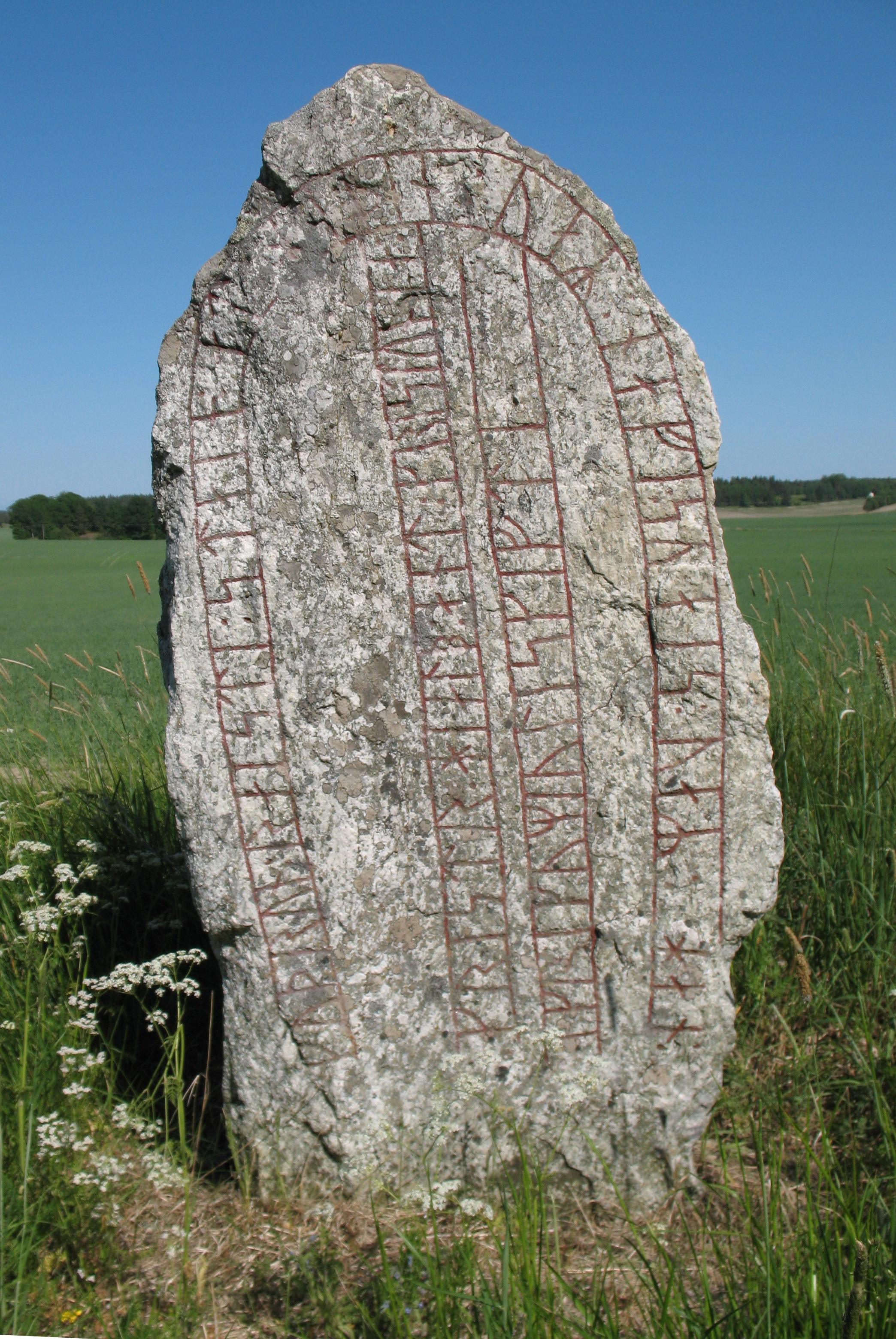 Runestone Sö 165 at Grinda, north of Nyköping, Sweden.